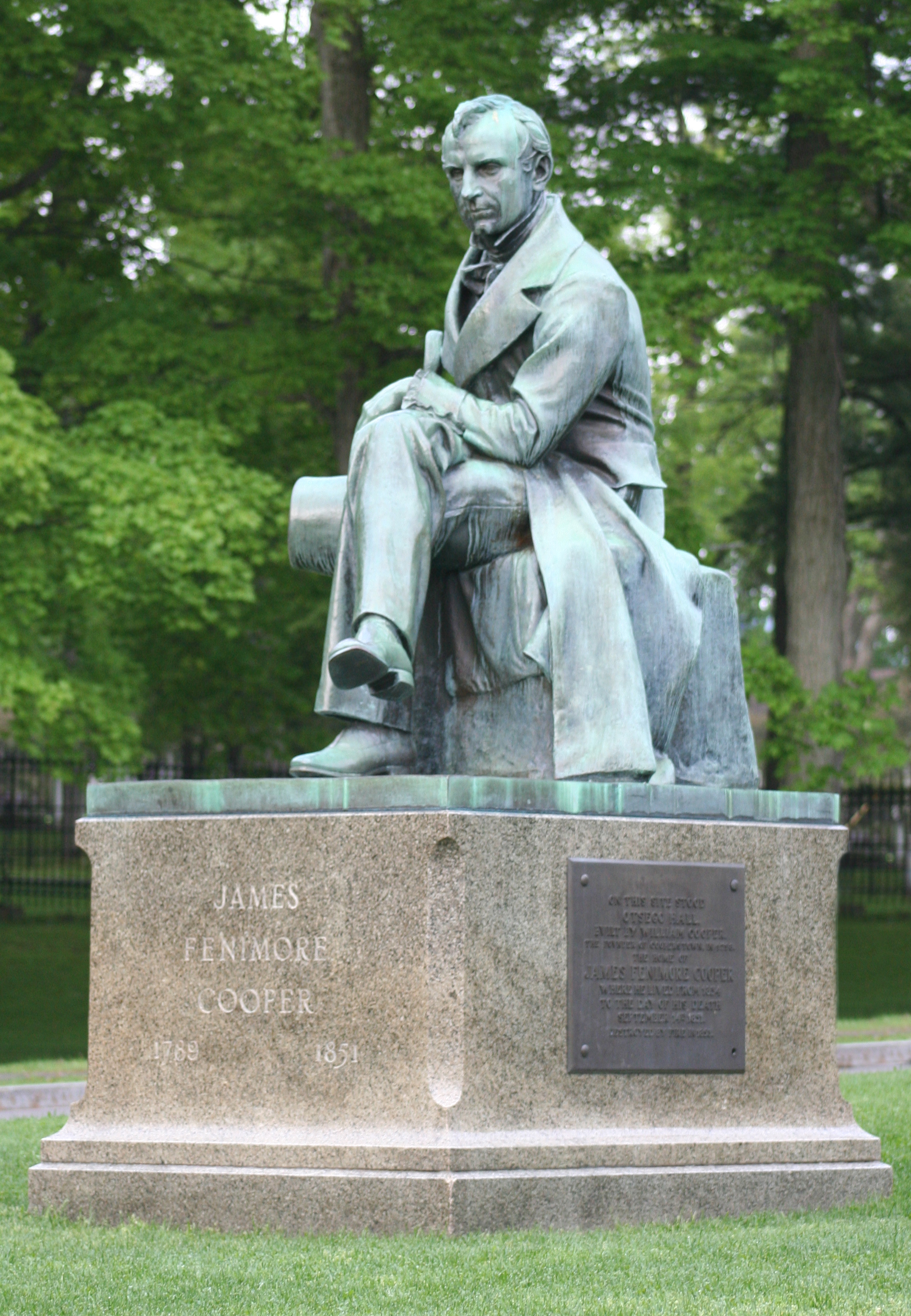 James Fenimore Cooper statue in Cooperstown, NY.